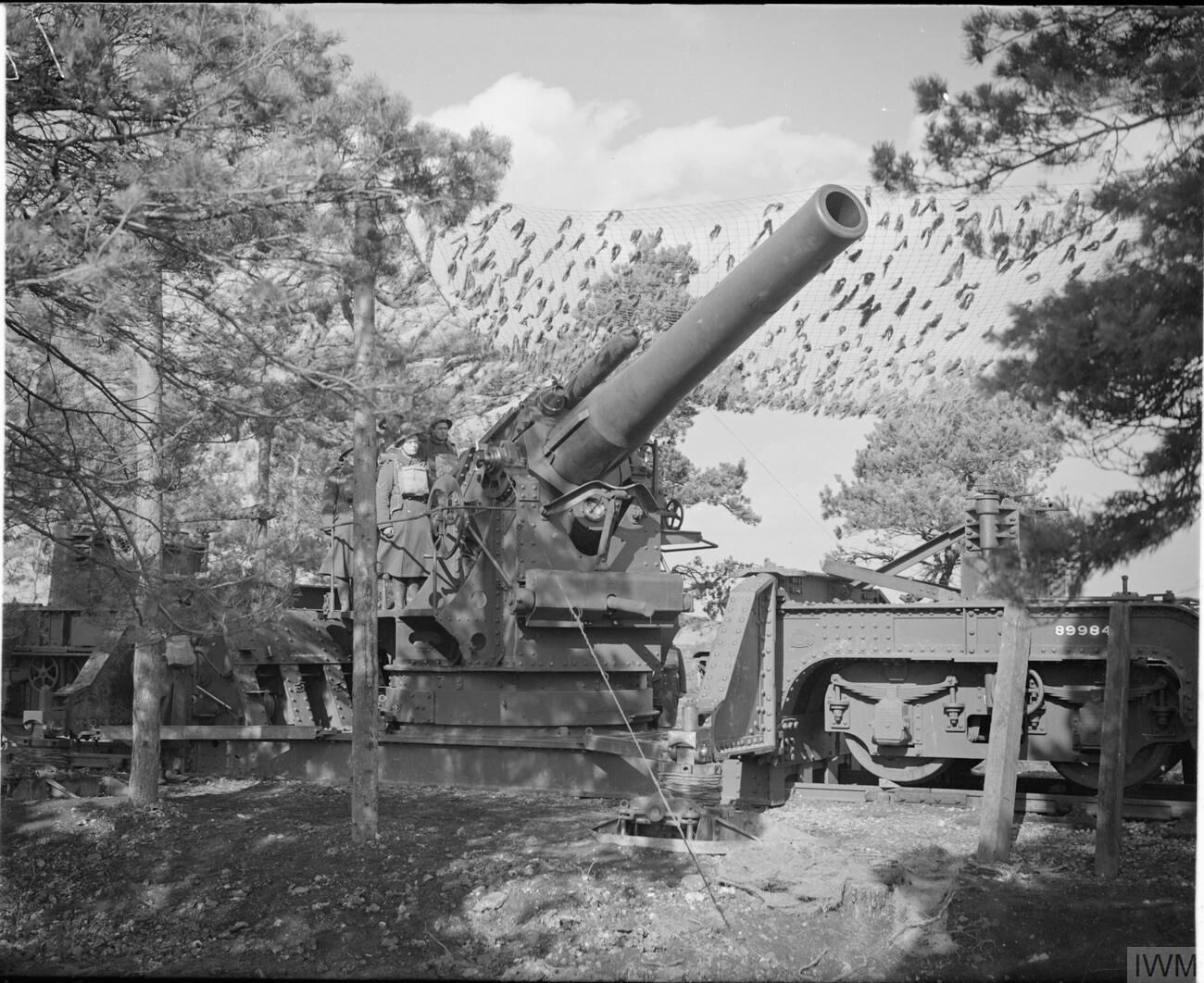 THE BRITISH ARMY IN THE UNITED KINGDOM 1939-45 12-inch railway howitzer Mk III of 14th Super Heavy Battery, Royal Artillery, at Wareham, Dorset. NOTE : This version of the photograph has brightness and contrast artificially increased to highlight detail.